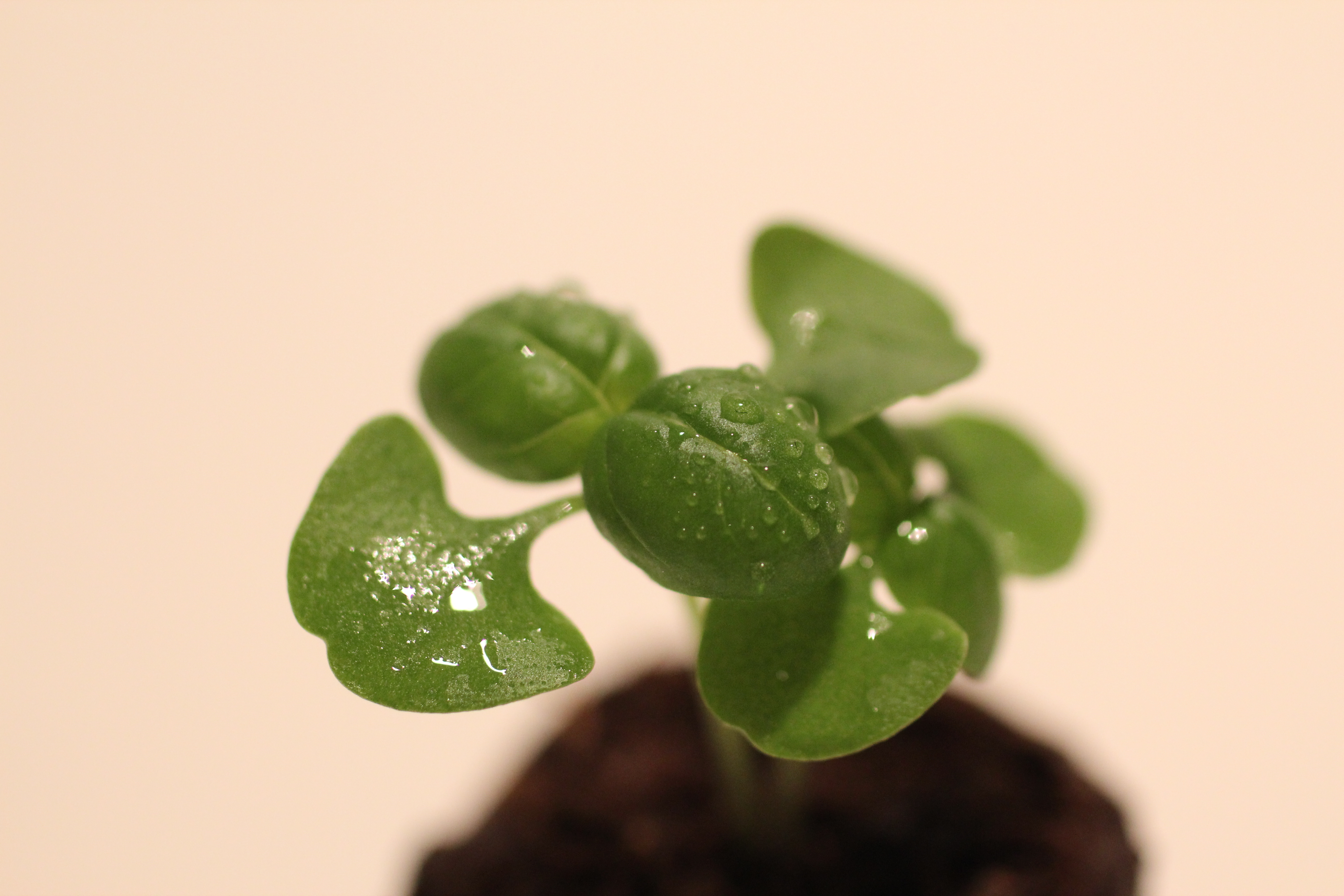 This is a picture of a small basil plant.